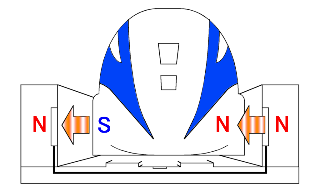 Diagram explaining the guidance for the maglev train. In this diagram, the train has moved to the right - the magnets in the train induce a current in the coils beside the train (the guideway) that push the train left toward the centre.